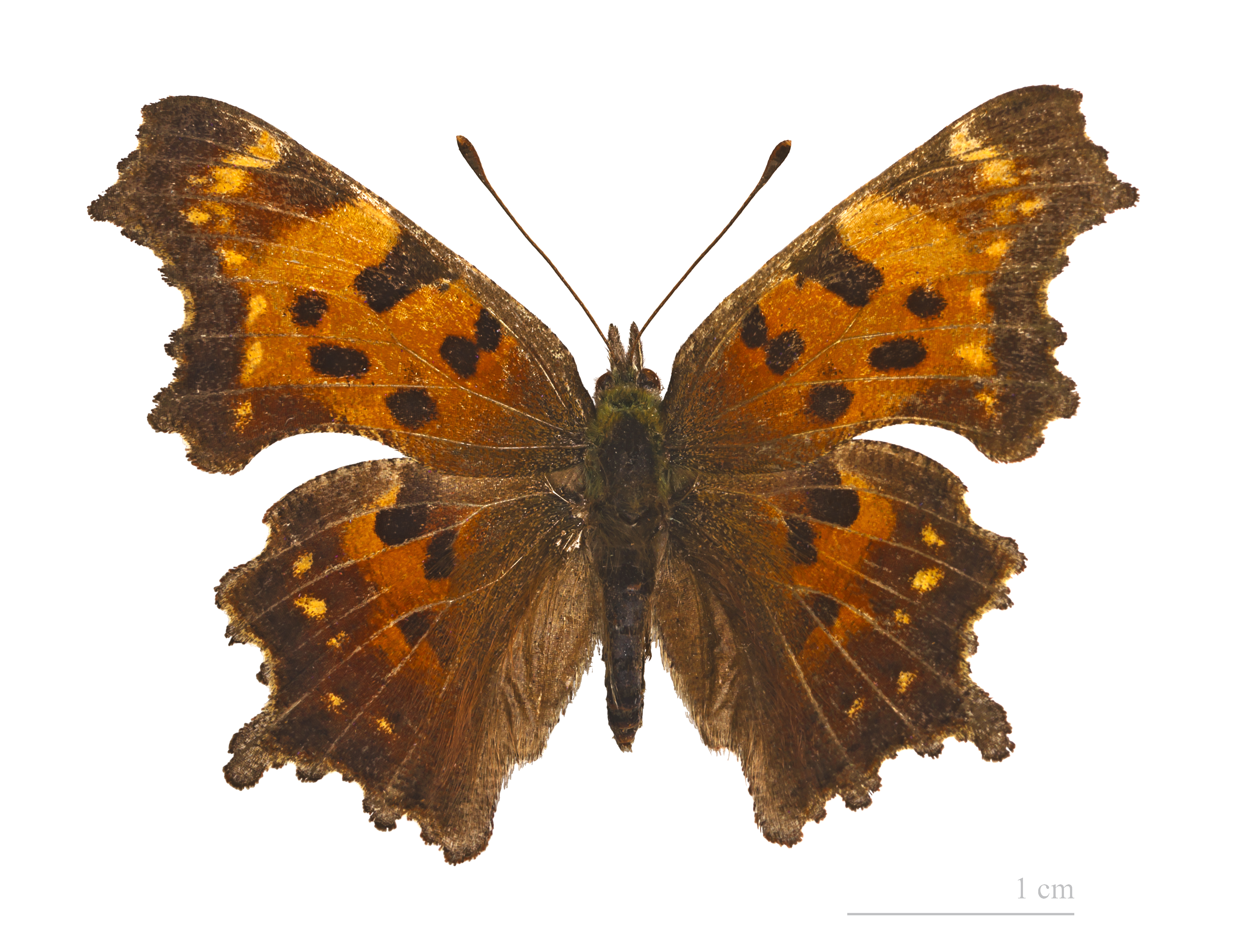 Green Comma ♂ - Dorsal side Locality: Camp Mercier, Réserve faunique des Laurentides, Quebec, Canada